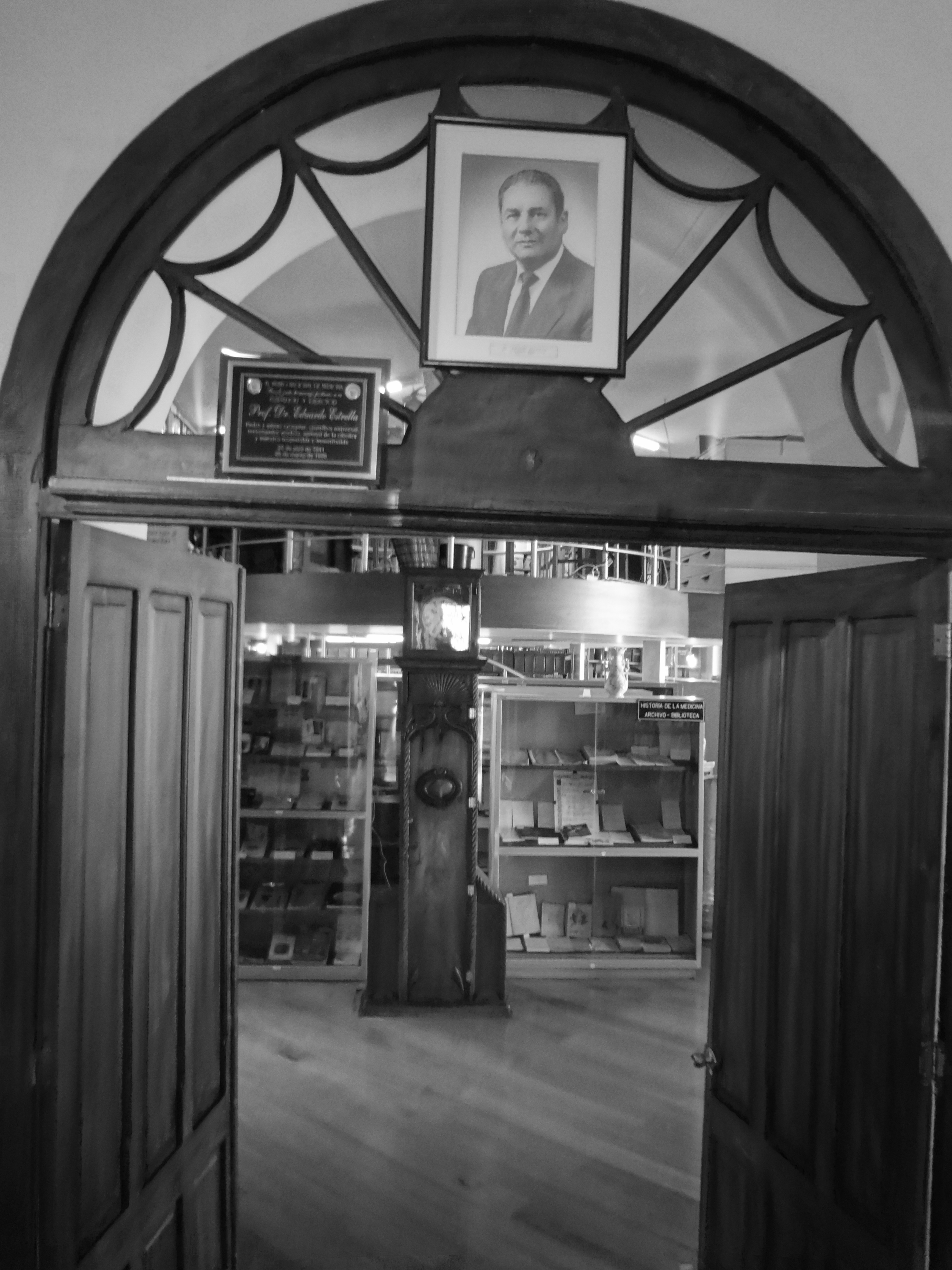 (Museum of Medicine, Quito) Museo Nacional de la Medicina (Doctor Eduardo Estrella Aguirre) Historic Center of Quito